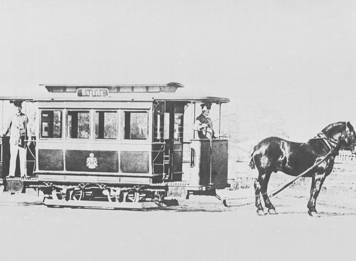 Pferdebahn - Ringbahn (um 1895)